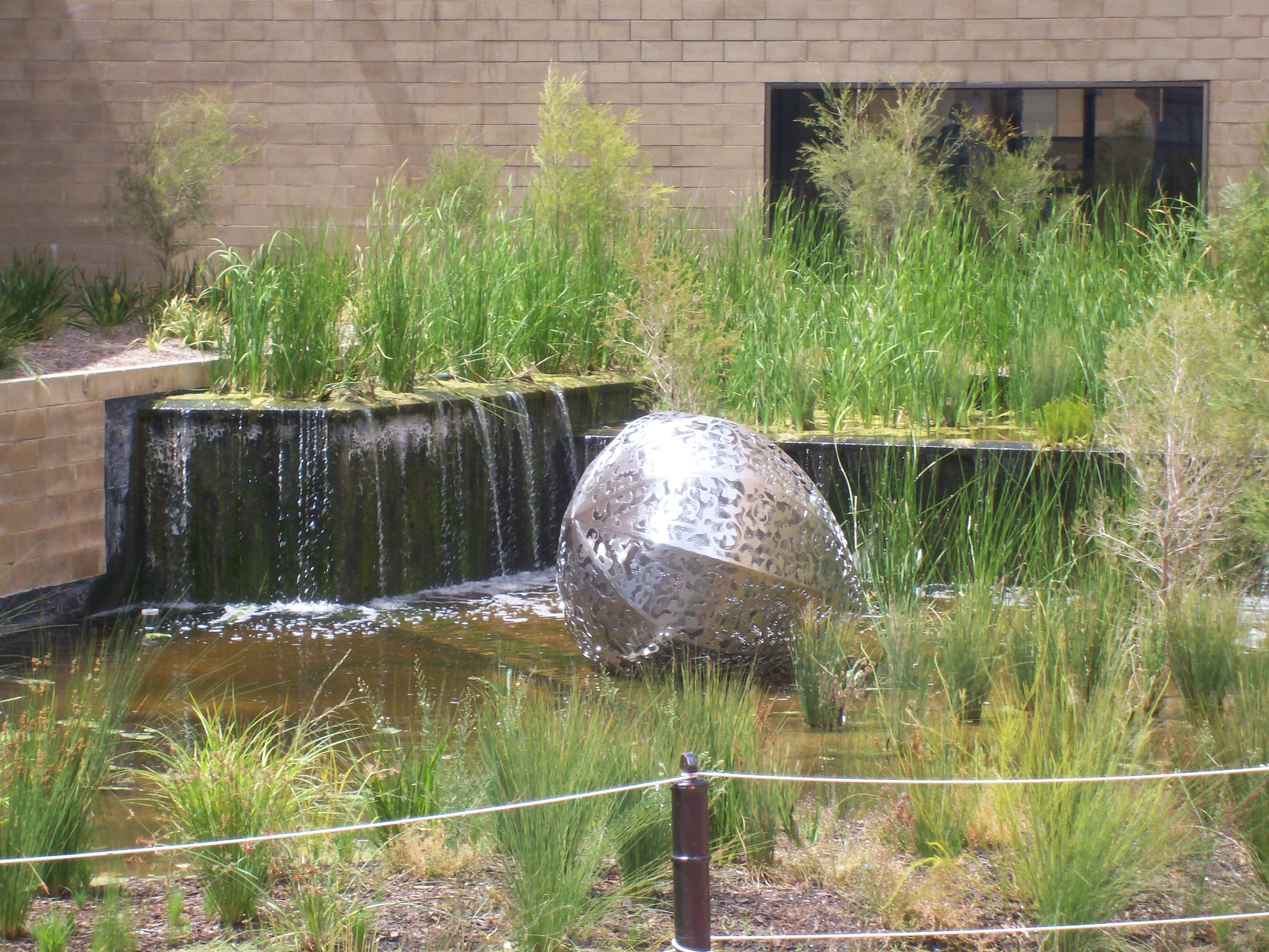 A sculpture outside the Perth Art Gallery